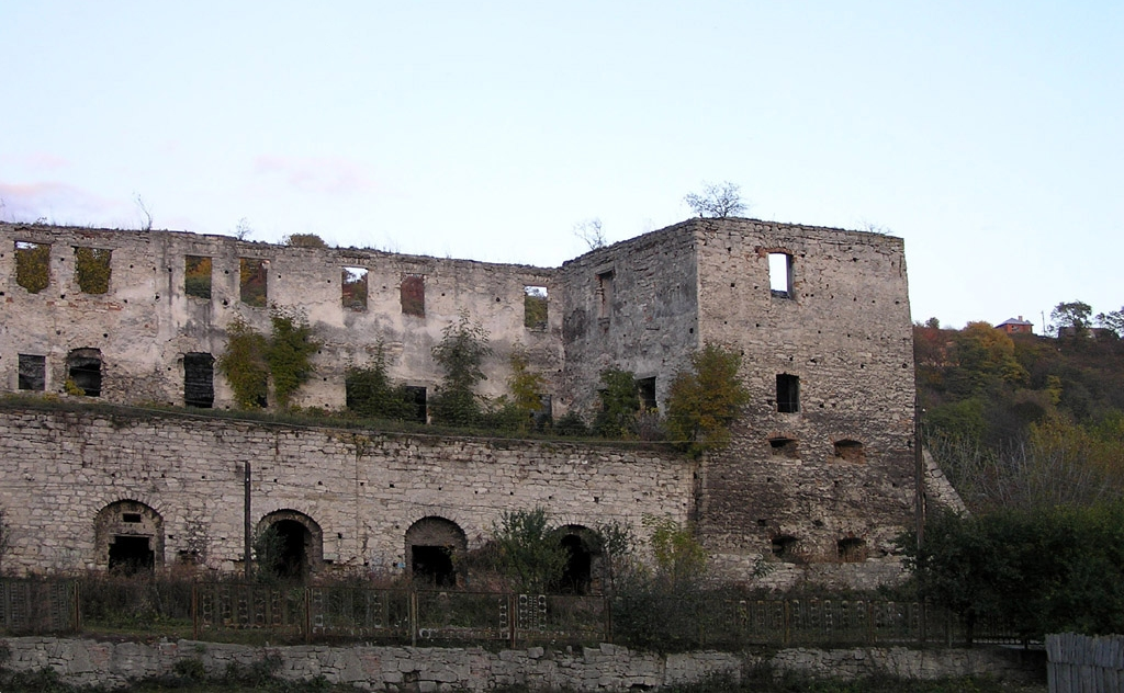 Chortkiv Castle